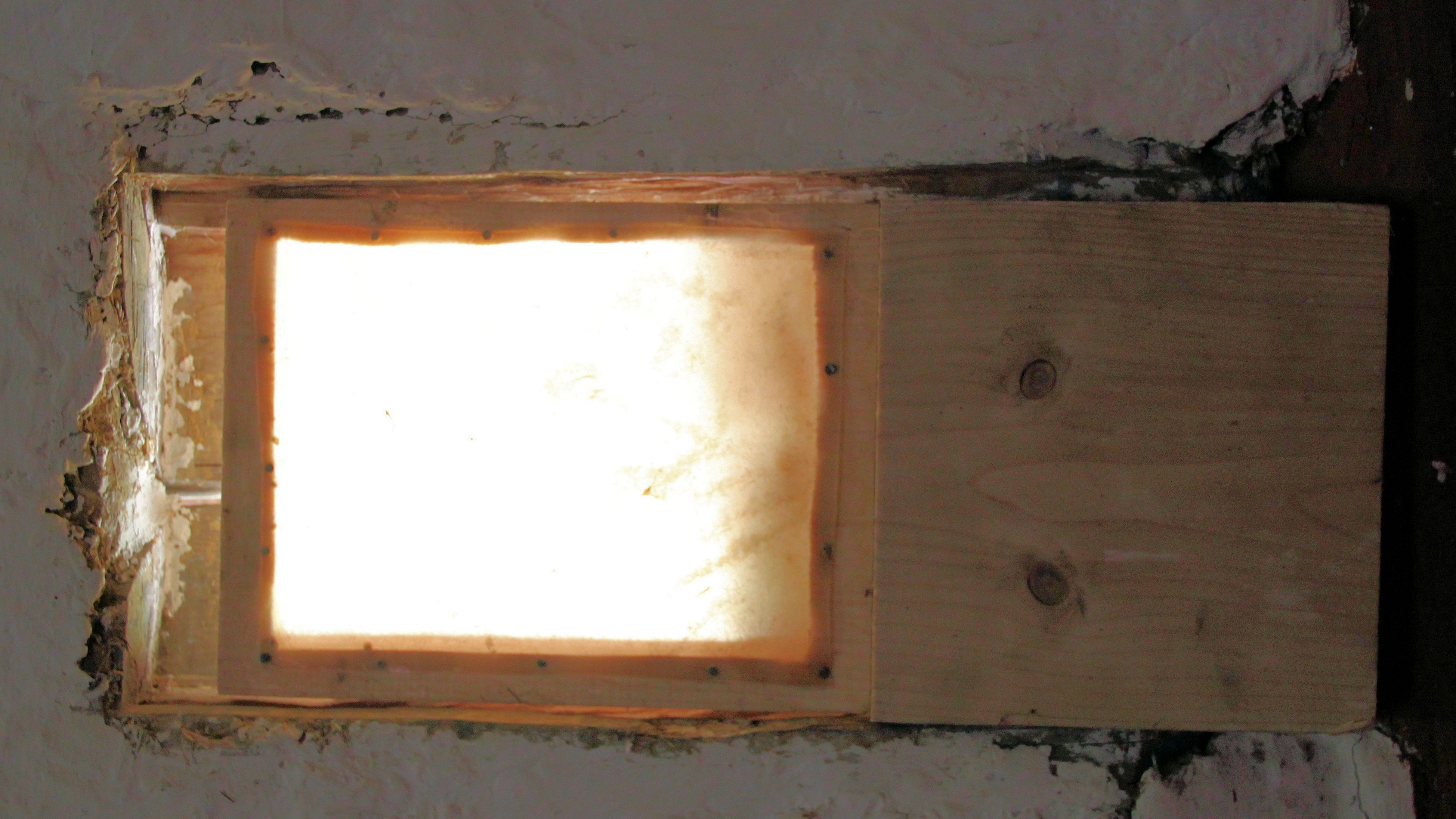 Sash window with a rawhide filling used in the longhouse of the Bajuwarenhof Kirchheim.